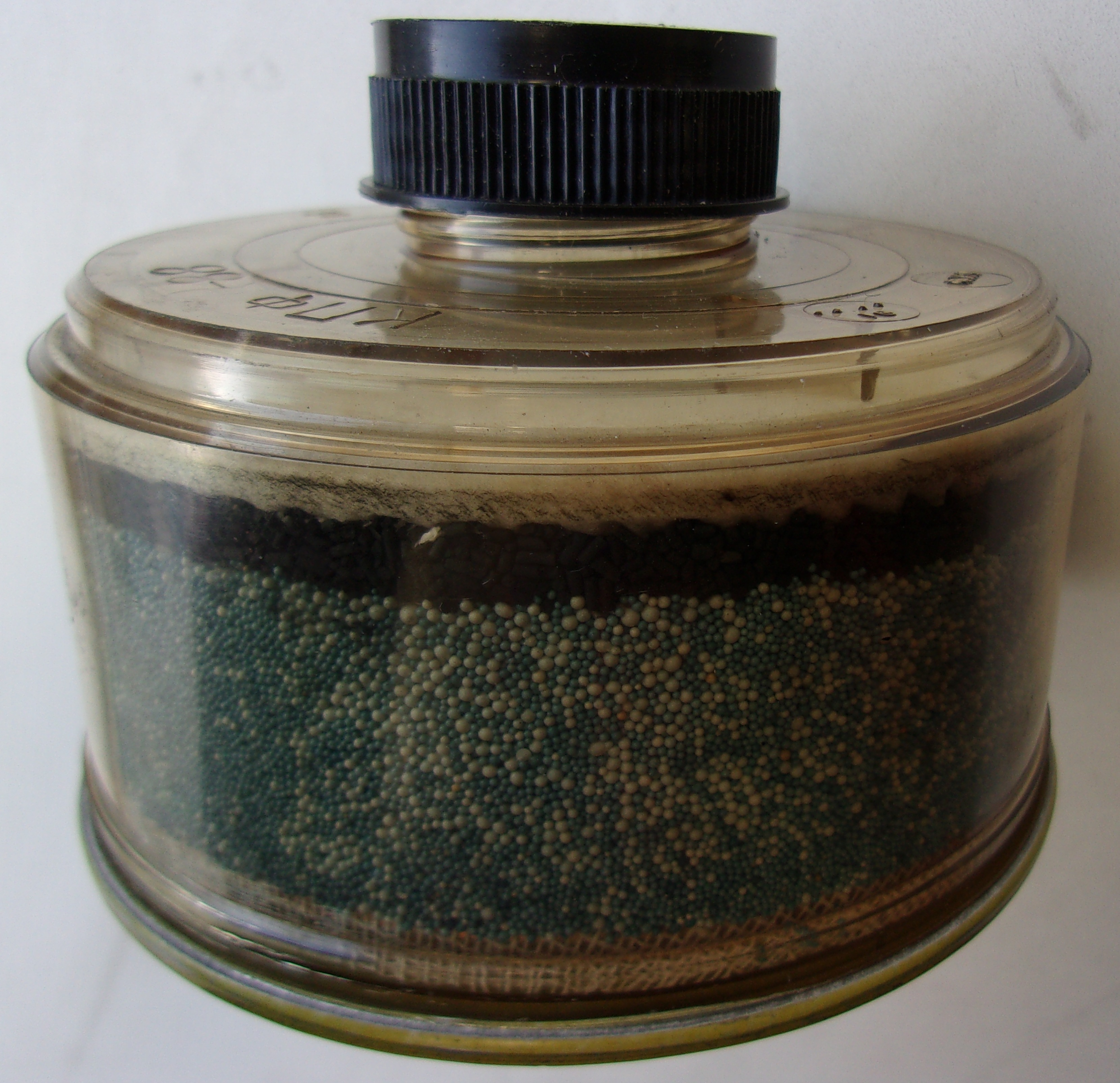 Combined gas and particulate respirator filter for protection against acid gases, the type of BKF (БКФ). It has transparent body and special sorbent that changes color after the saturation. This color change may be used for timely replacement of respirators' filters (like End of Service Life Indicator ESLI). The filter is made, presumably, in the city of Dzerzhinsk, Nizhny Novgorod region (RF).